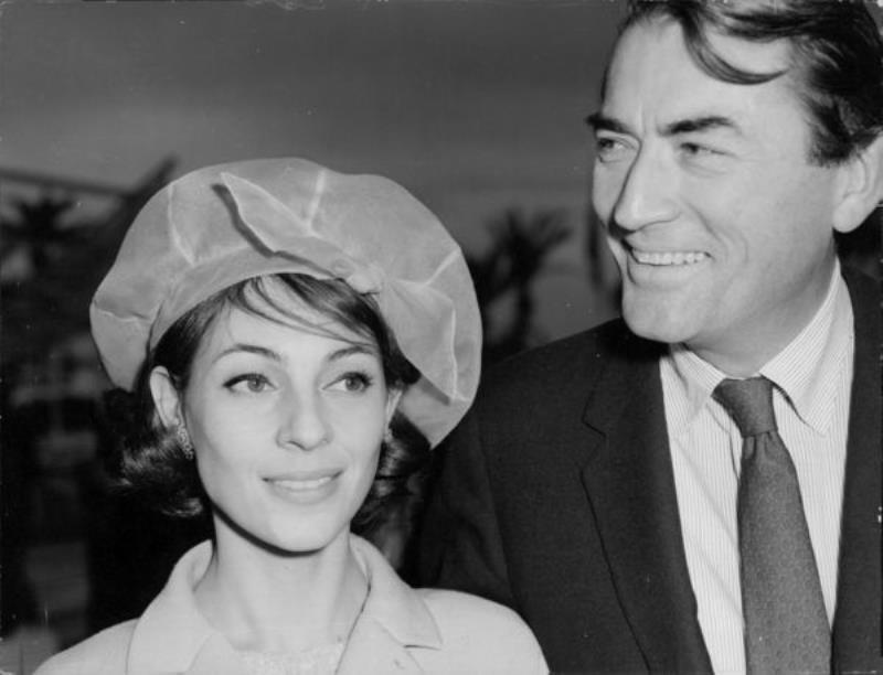 Veronique & Gregory Peck, 1950s.